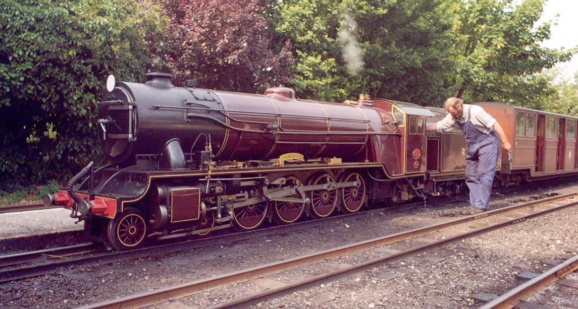 Preparing steam lokomotive R.H.D.R. in Hyte station August 1999 Practica B100 camera, film Kodak 200, 28 mm lens